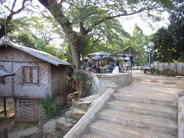 View of street in Kathar, Burma)